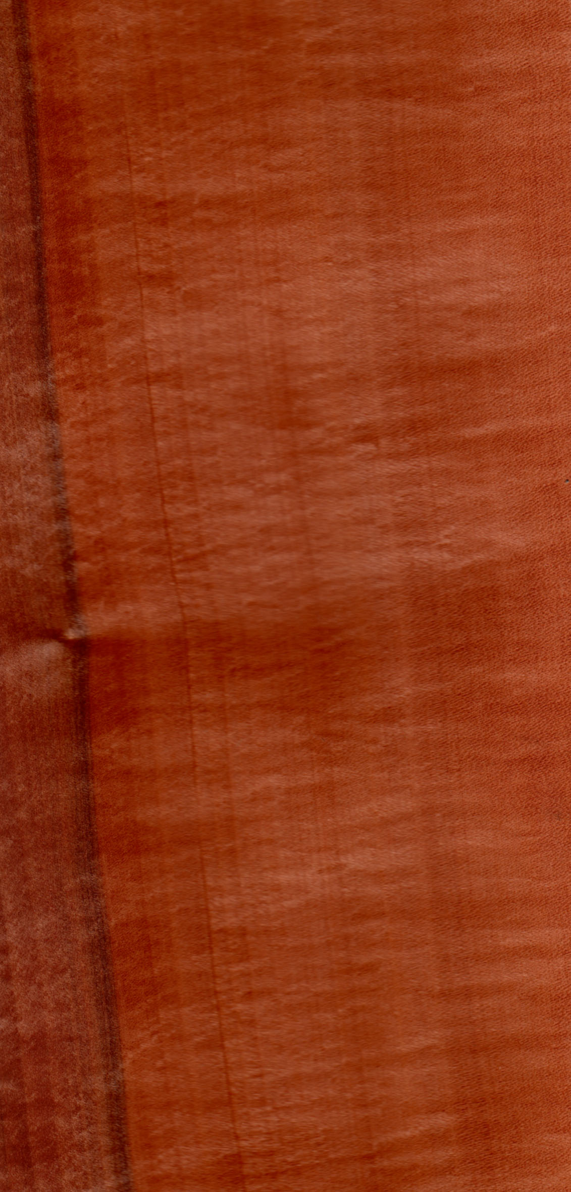 Wood of 'Sorbus domestica